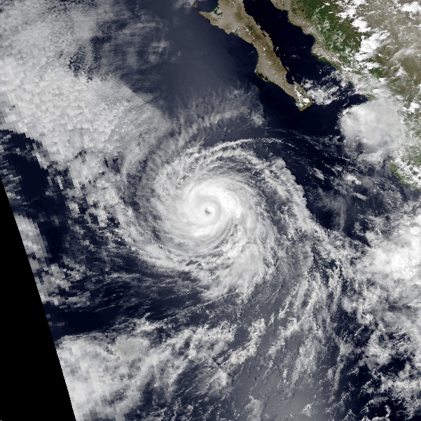 Image of Hurricane Juliette of the 1995 Pacific hurricane season on 20 September 1995